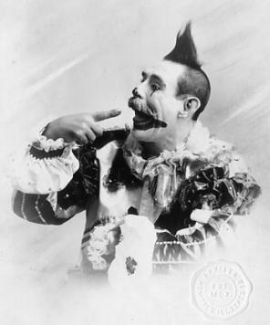 British clown Richard Bell, c.1900.